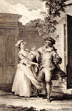 Scene from Molière's play Sganarelle, ou Le Cocu imaginaire